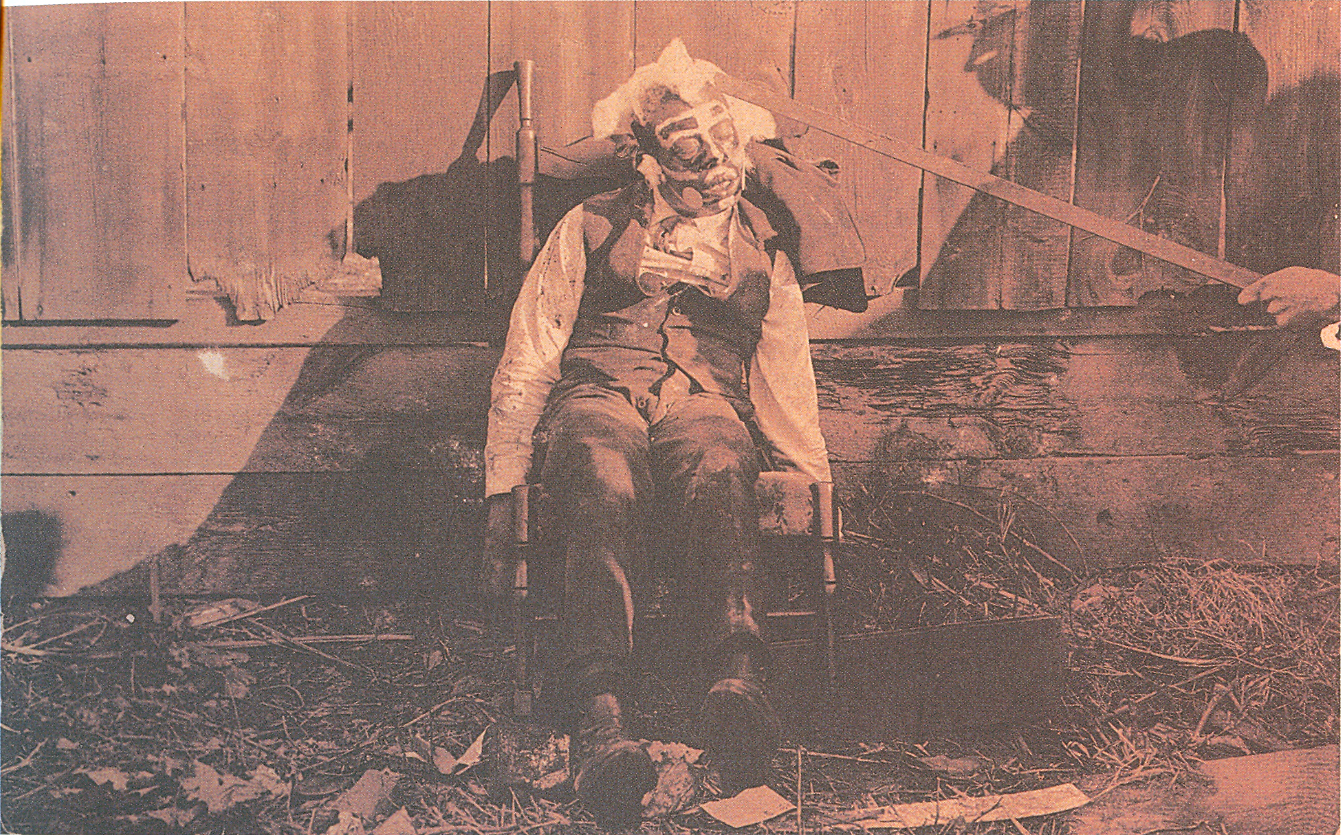 "The bludgeoned body of an African American male, propped in a rocking chair, blood-spattered clothes, white and dark paint applied to face, circular disks glued to cheeks, cotton glued to face and head, shadow of a man using rod to prop up the victim's head. Circa 1900, location unknown. Gelatin silver paint. Real photo postcard. 5 3/8 x 2 7/8"." (Info quote from p. 165.)